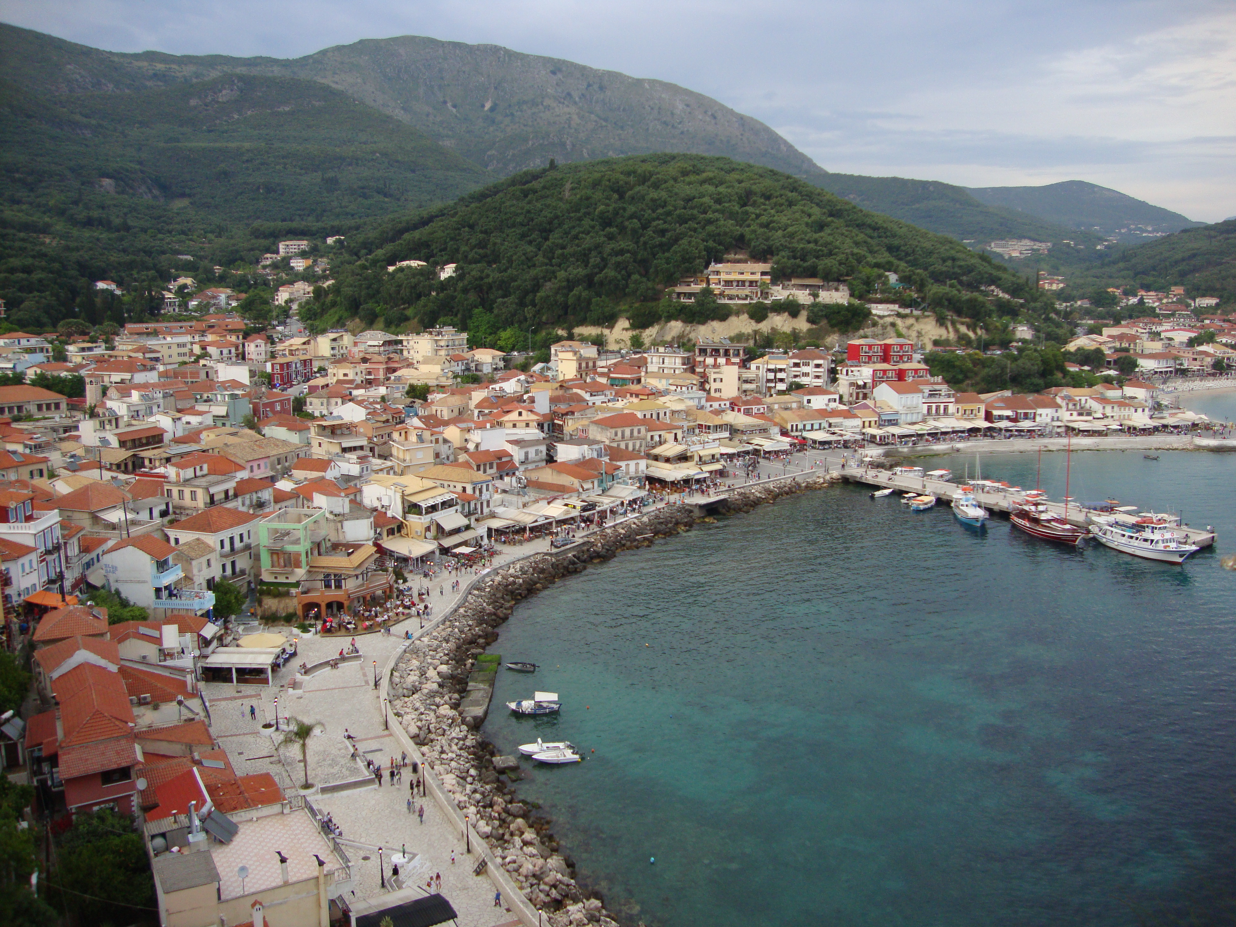 This is a photography of Natura 2000 protected area with ID GR2140003